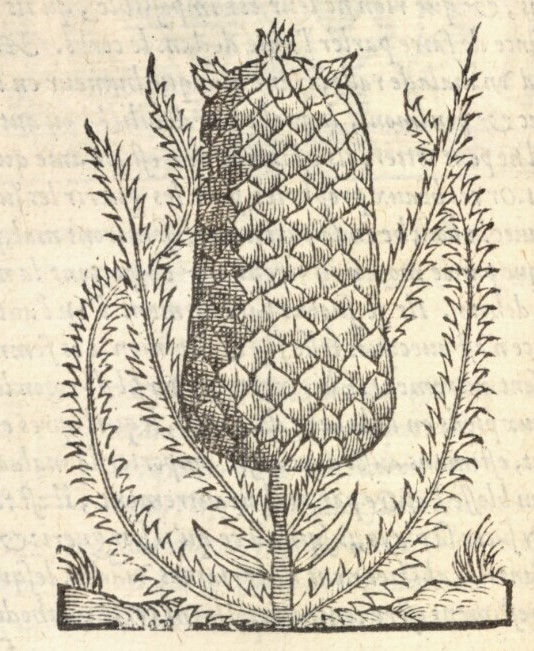 Engraving of a pineapple in an early European text on South America. Thevet's , The new found World or Antartictike was published in 1558. This is from Chapter 46, p73.